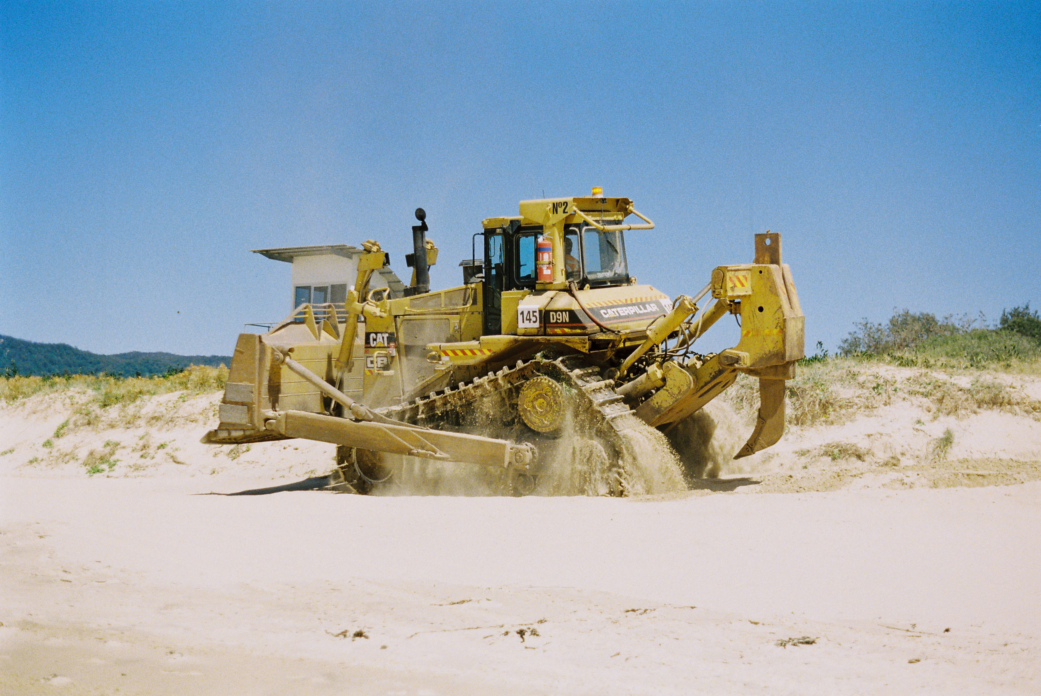 A Caterpillar D9N on Fairy Meadow Beach, NSW, Australia.